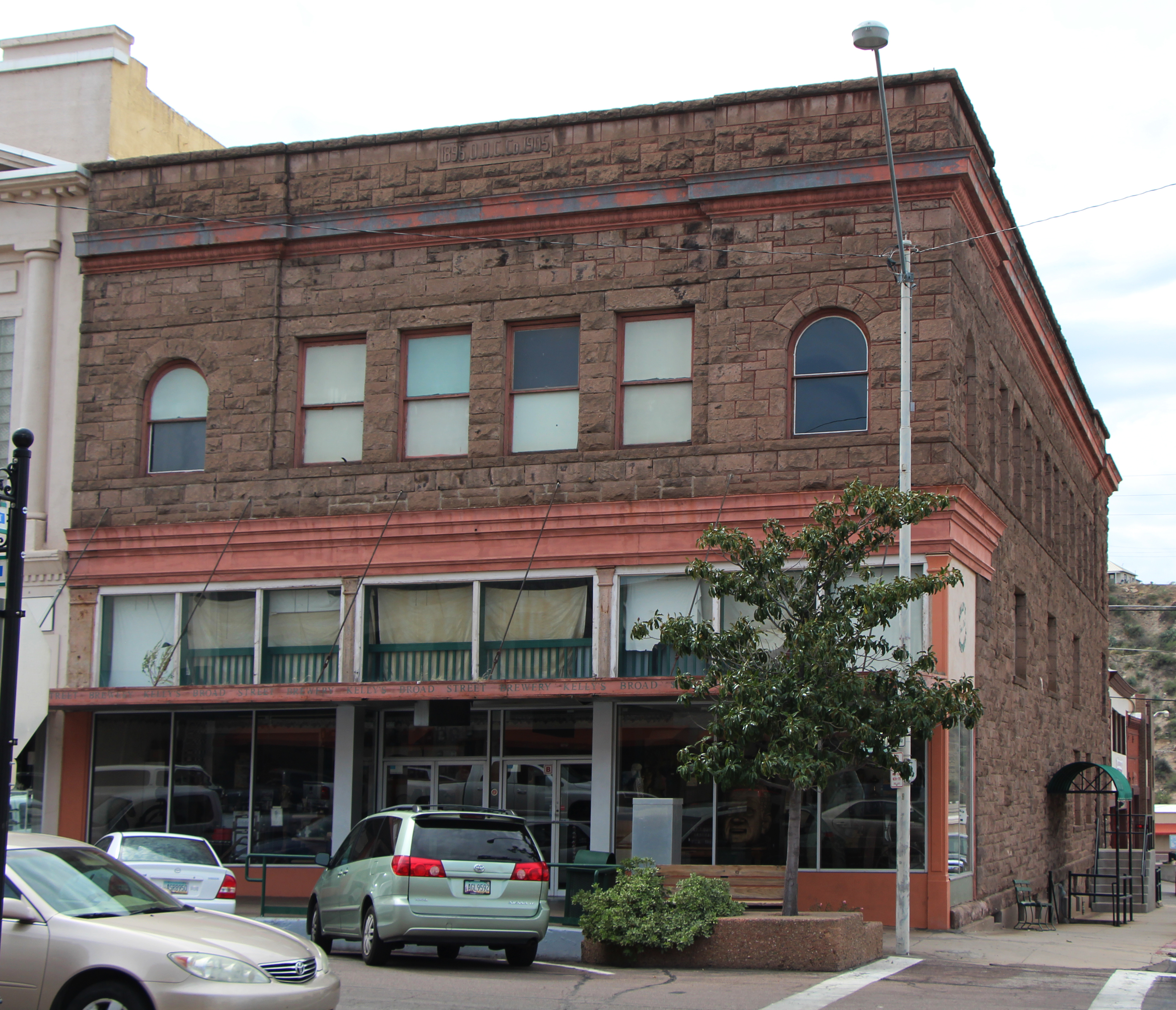 Old Dominion Mercantile, southwest corner of Oak Street and Broad Street, Globe, AZ